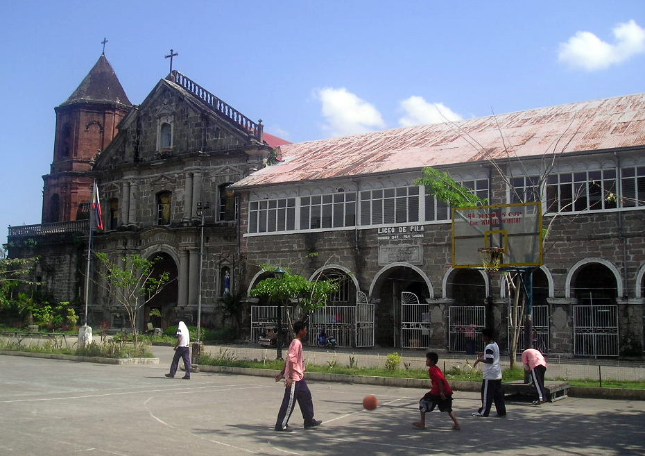 The Franciscans were already in Pila by 1606 when they put up a printing press that was supervised by Tomas Pinpin and Domingo Loeg. The first church was built in 1618. To avoid the frequent floods, the town was relocated to its present site in 1800 where a new church was built. The present church was built in 1849. Olympus Camedia (February 2006, Los Banos MDG Forum). Slightly improved with Picasa.